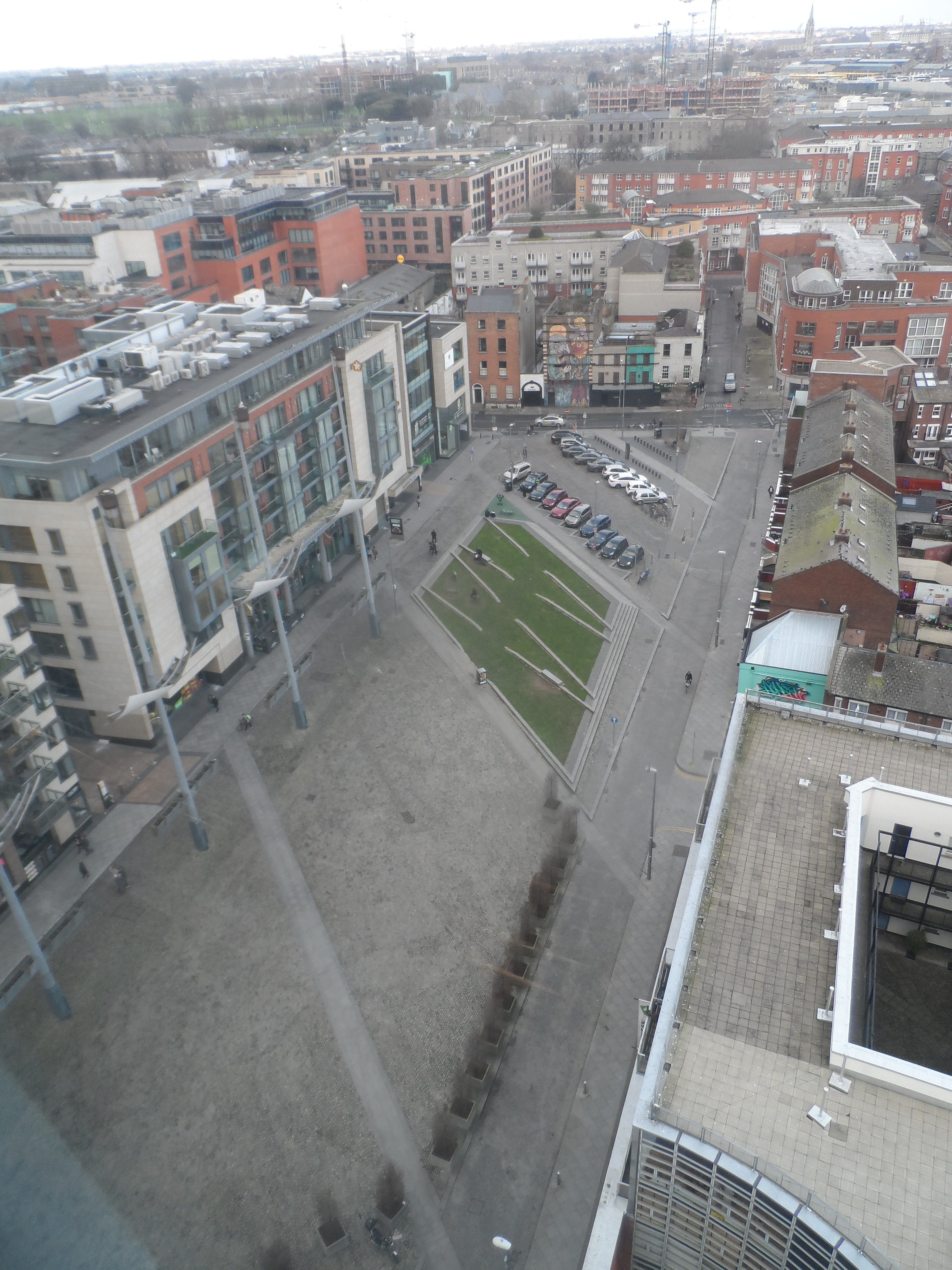 Smithfield, Dublin view